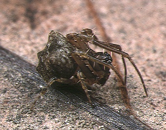 female Dolichognatha umbrophila from Okinawa.